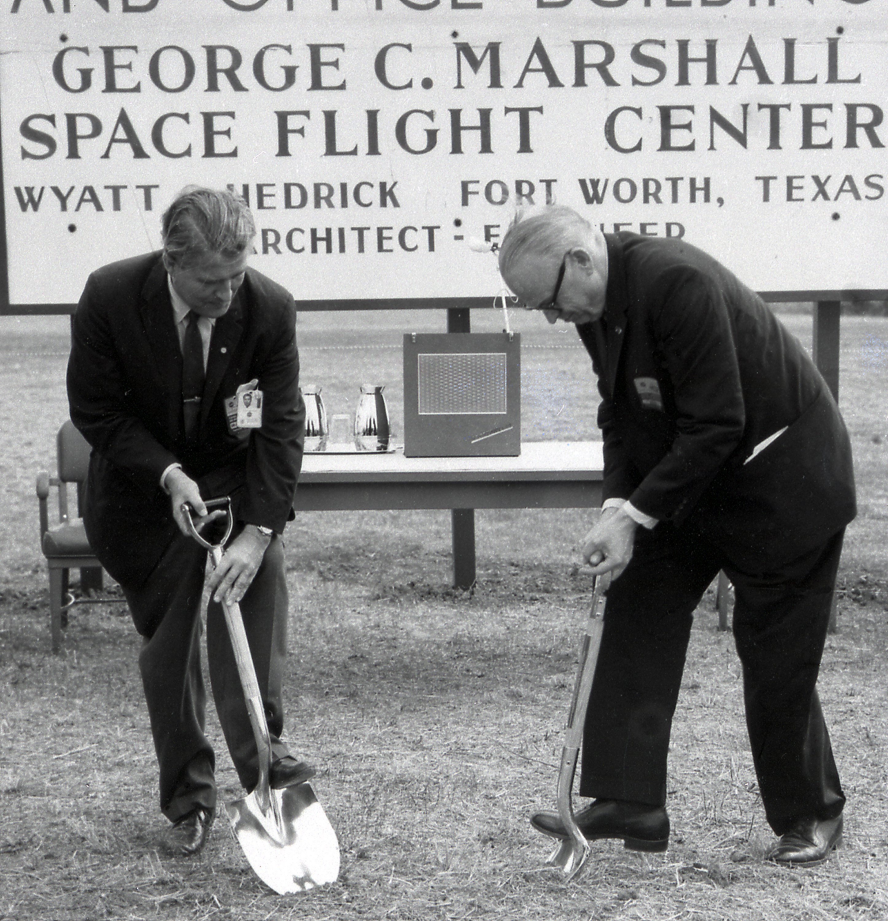 Dr. Wernher von Braun, Director of Marshall Space Flight Center (MSFC), teams up with Senator Robert S. Kerr, a chairman of the Senate Committee on Aeronautical and Space Sciences to break ground for MSFC's new Central Laboratory and Office Facility.